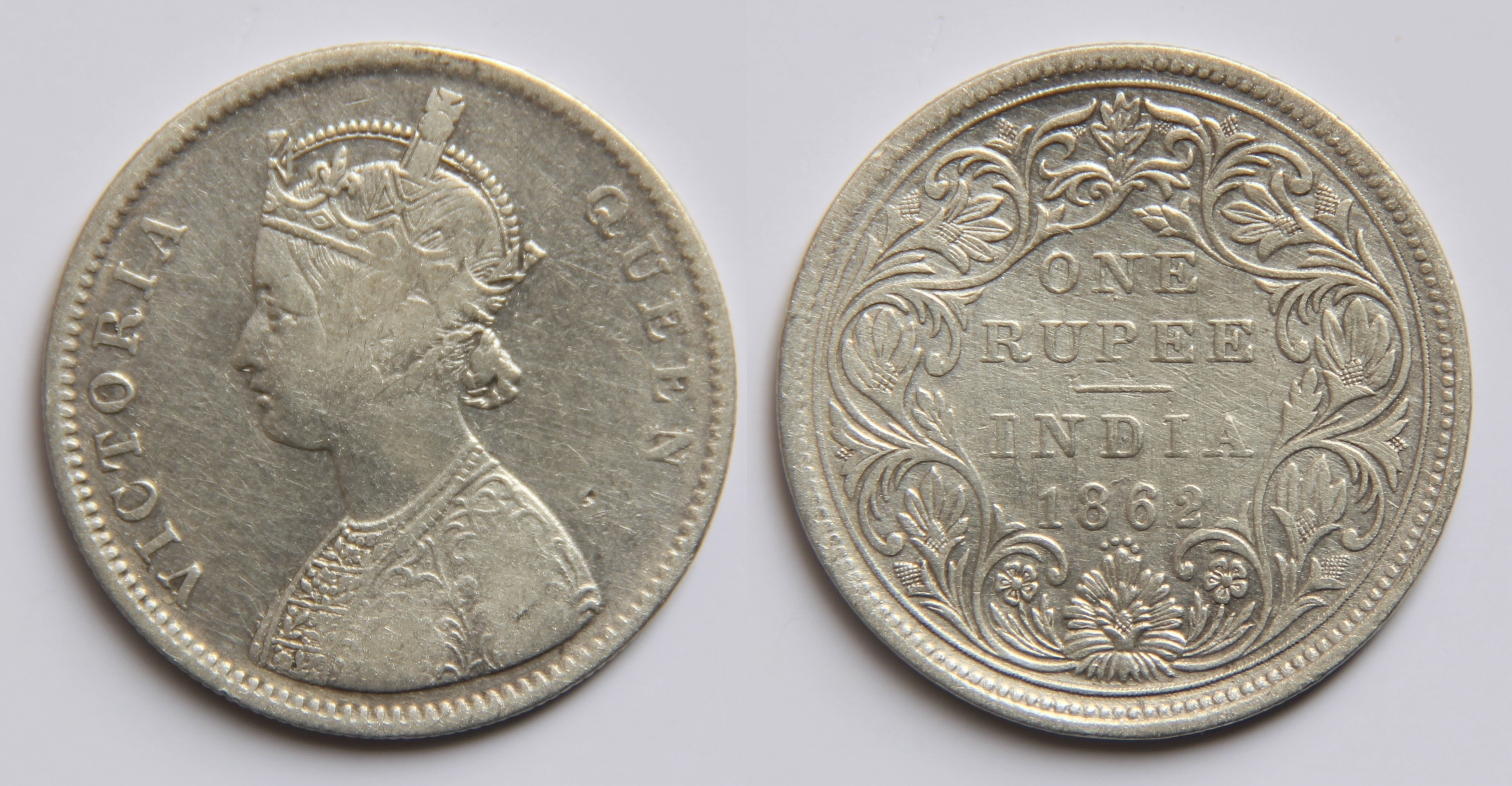 Face value: 1 Indian rupee coin. Country: Indian. Year of minting: 1862. Metal: Silver. Shape: Round. Obverse: Crowned bust of Queen Victoria surrounded by her name. Reverse: Face value, country and date surrounded by wreath. Edge: Reeded. Weight: 11.66 g. Diameter: 30.78 mm. Thickness: 1.9 mm. Orientation: Medal alignment ↑↑. Total mintage: Not known. Engraver: William Wyon. Comment: Made of 91.7% silver, more than 50 varieties of 1862 rupee coins are known. Monetization status: Demonetized. Data source: This and this webpage.